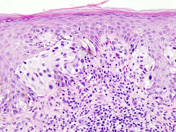 Histopathologic image of malignant melanoma (Case 01). Skin biopsy. The same case as illustrated in a file "Malignant_melanoma_(1)_at_thigh_Case_01.jpg". H & E stain.